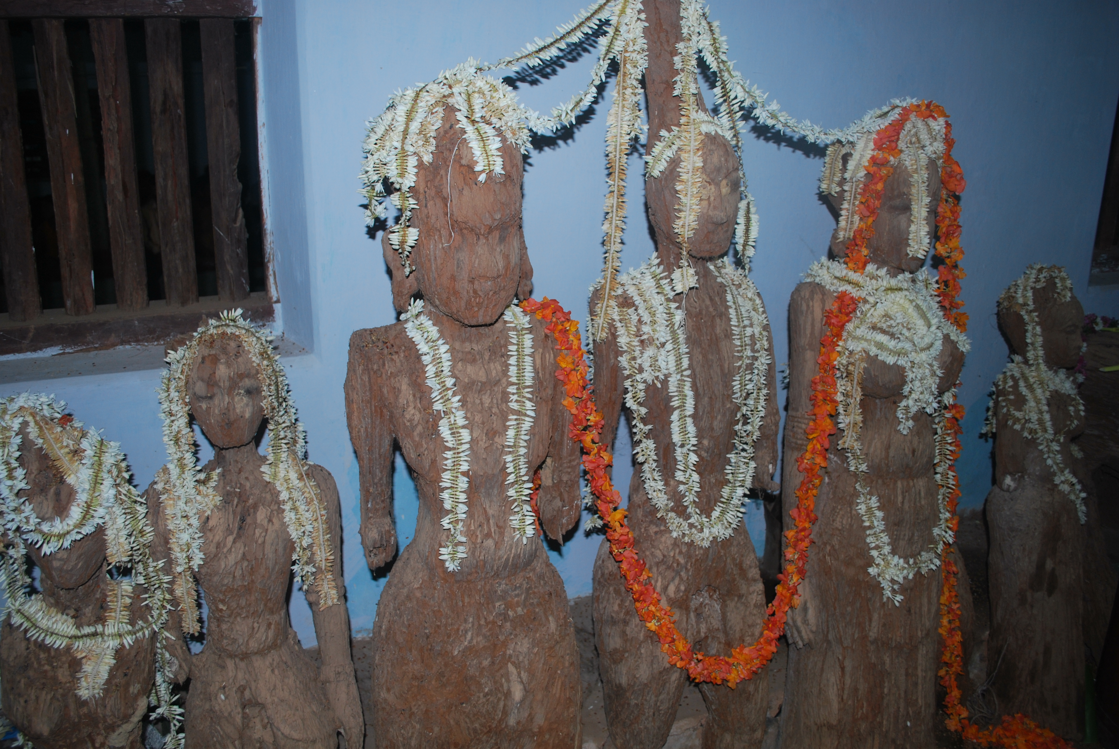 ಕವತ್ತಾರ್ದ ಸಿರಿನ ಉರುಕುಲು